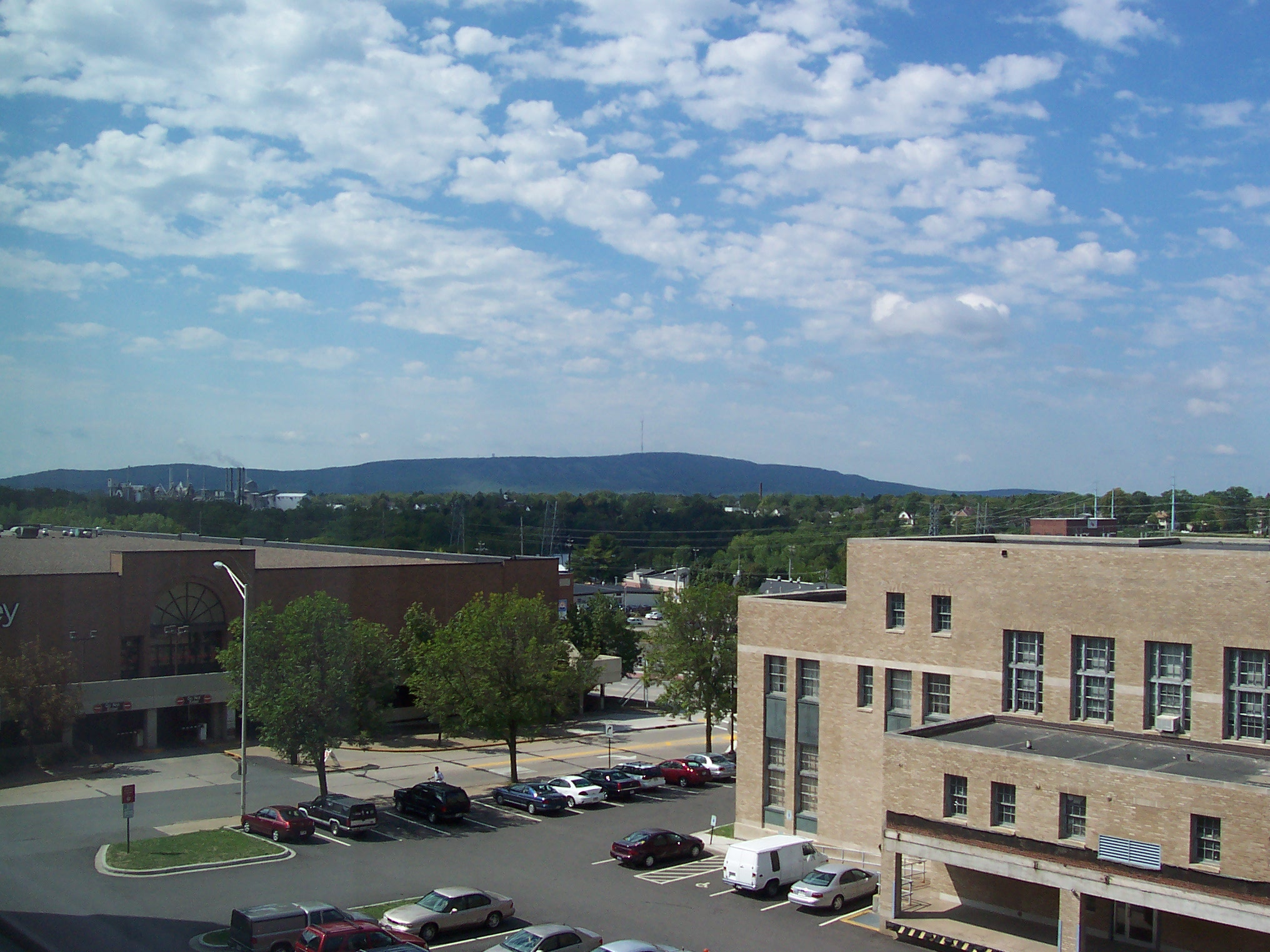 Rib Mountain, as seen from downtown Wausau, Wisconsin